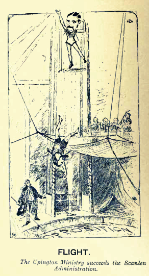 Cartoon in the Lantern. Prime Minister Scanlen falls into opposition - Upington takes over government. Cape Colony.